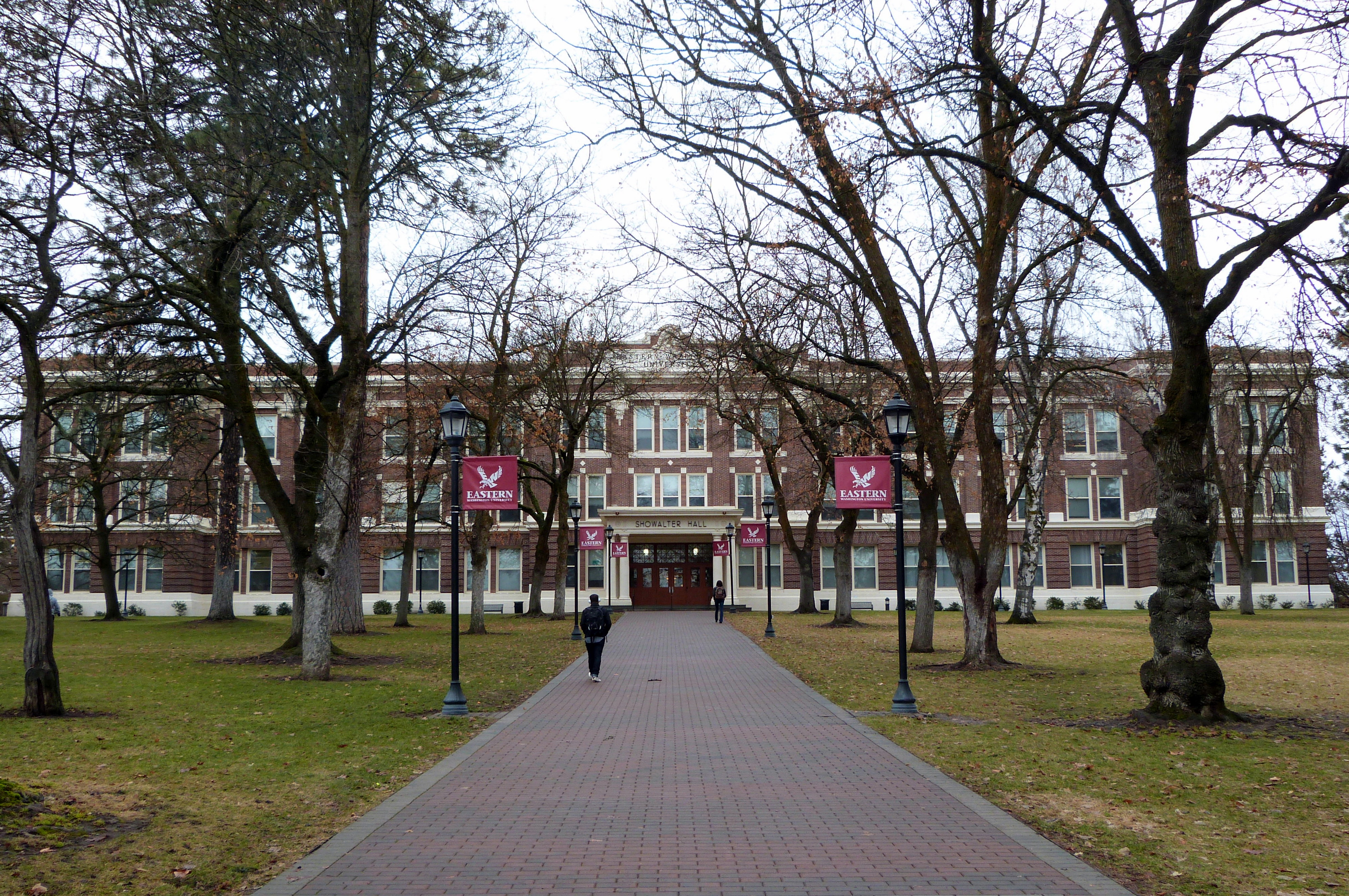 Showalter Hall (built 1915) at Eastern Washington University in Cheney, Washington, United States, is listed as a contributing resource in the Washington State Normal School at Cheney Historic District. The district is listed on the US National Register of Historic Places.